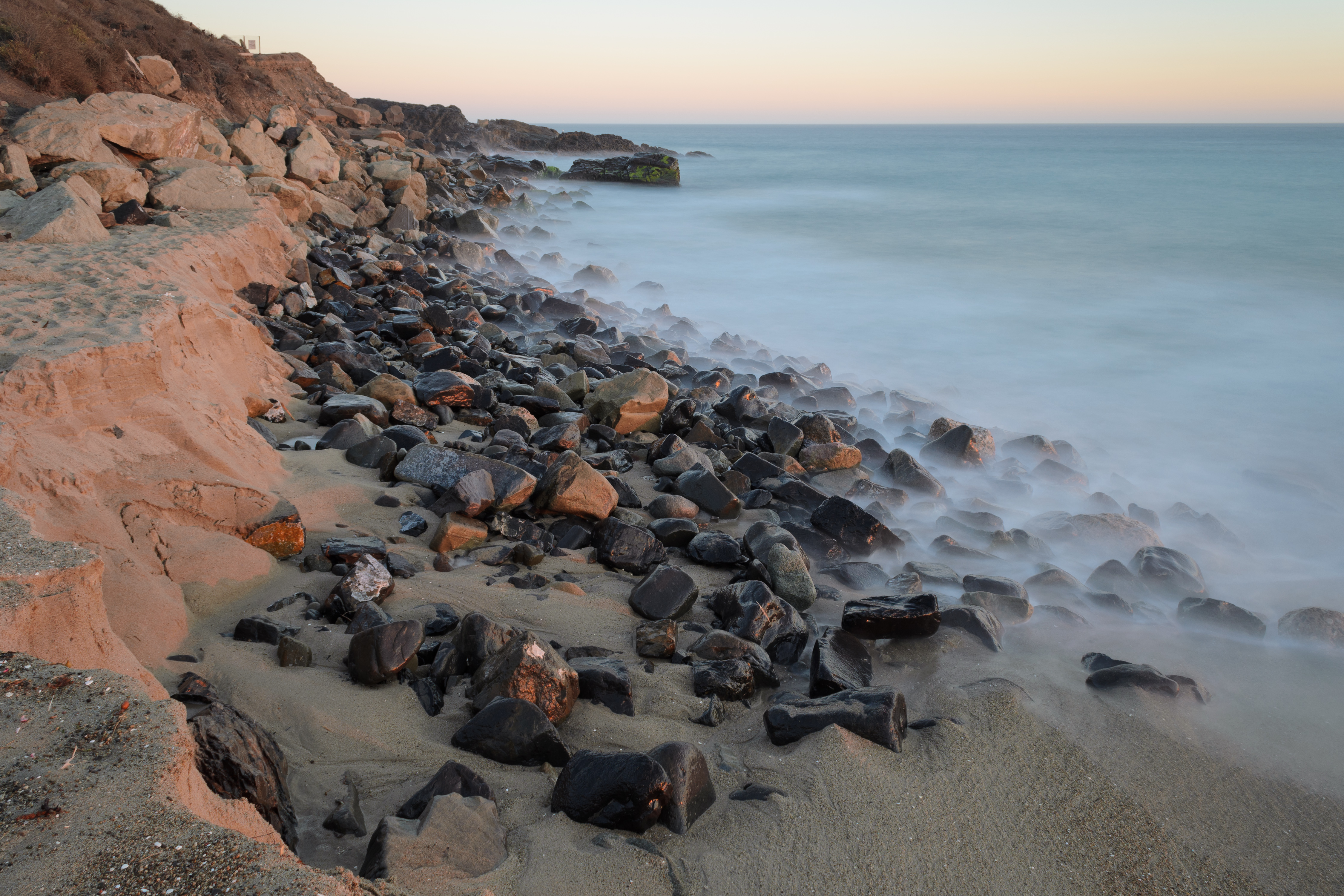 View of the Pacific Ocean in Point Mugu State Park.